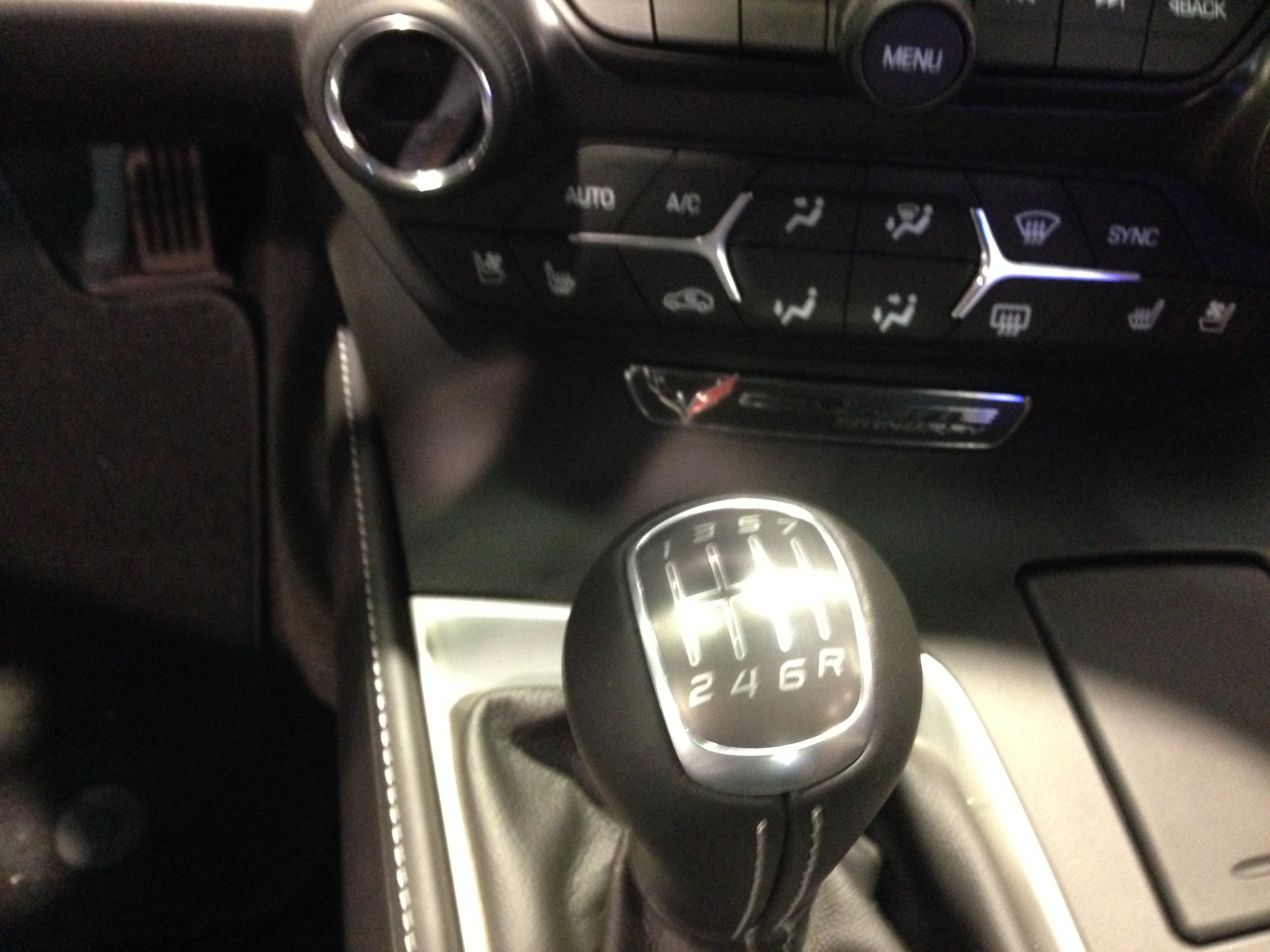 The new C7 Chevrolet Corvette at the 2013 LA Auto Show. First 7-spped manual from Chevrolet.